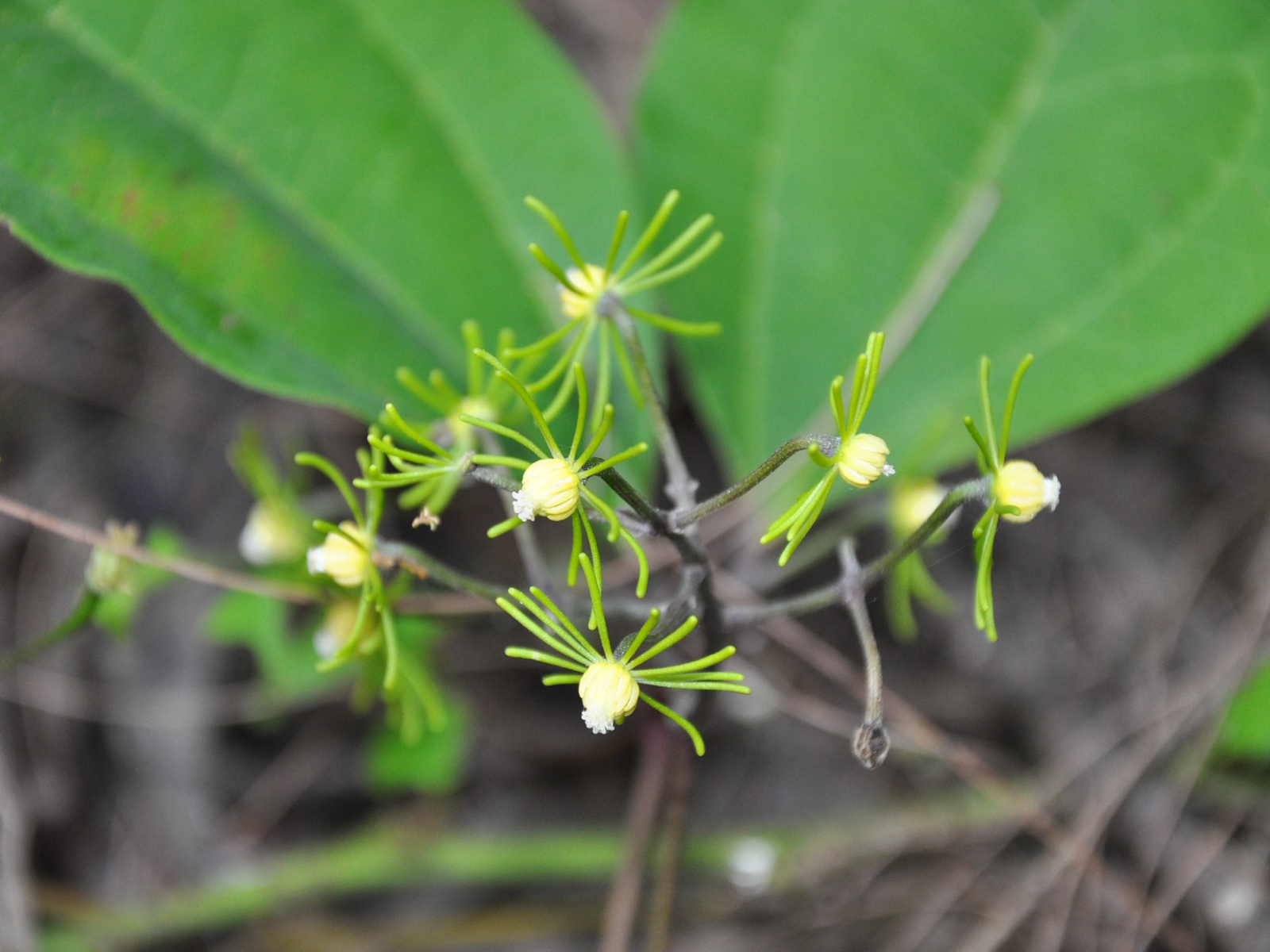 Naravelia laurifolia in Bulon Island, Southern Thailand